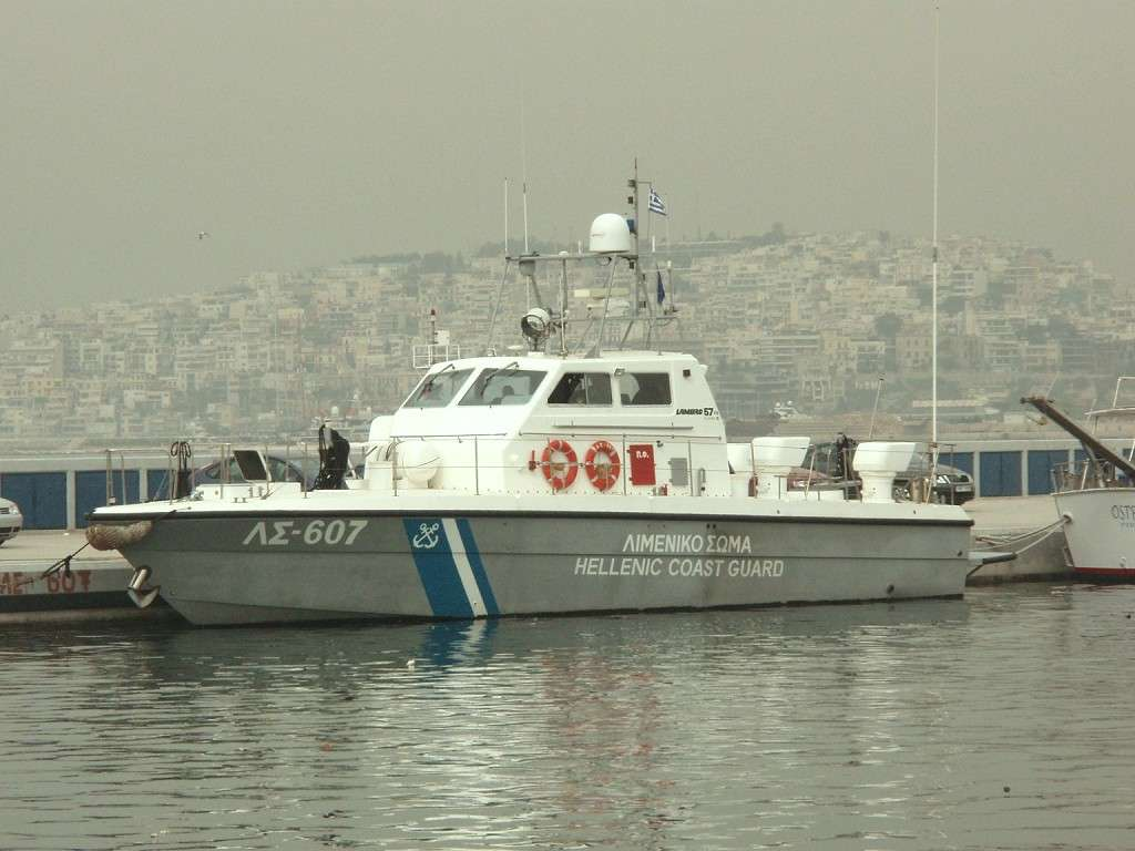 Lambro 57PB patrol boat ΛΣ-607 of the Hellenic Coast Guard at Delta Falirou.